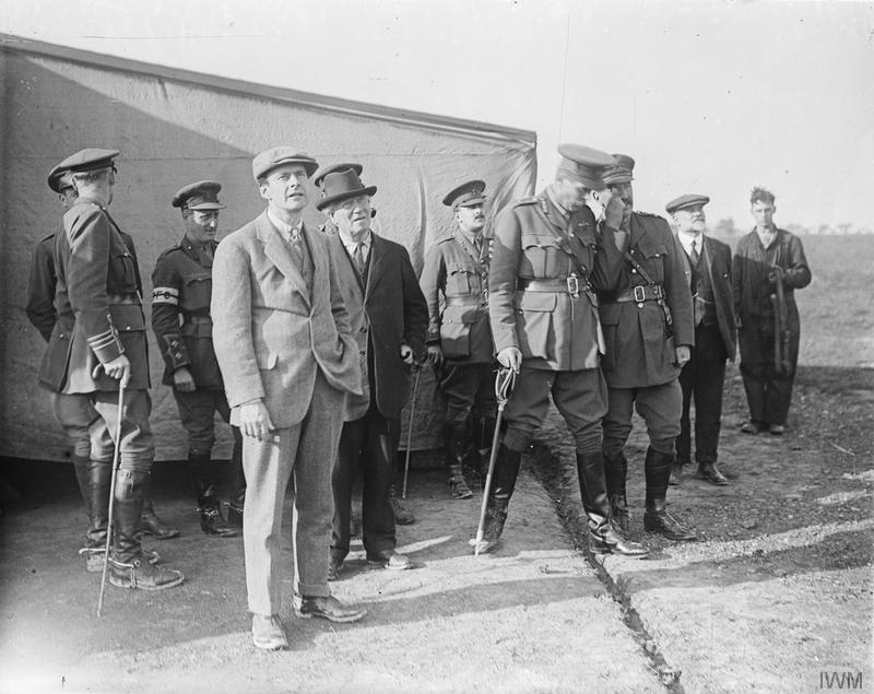 The Battle of the Somme, July-november 1916 Mr Herbert Asquith, Prime Minister of the Liberal Government 1908-1915 and of the Coalition Government until 1916, watches a squadron of aeroplanes returning to RFC Headquarters at Frevillers. With him is General Hugh Trenchard who was considered to be the Father of the Independent Air Force. Royal Flying Corps Headquarters at Franvillers, 7 August 1916.